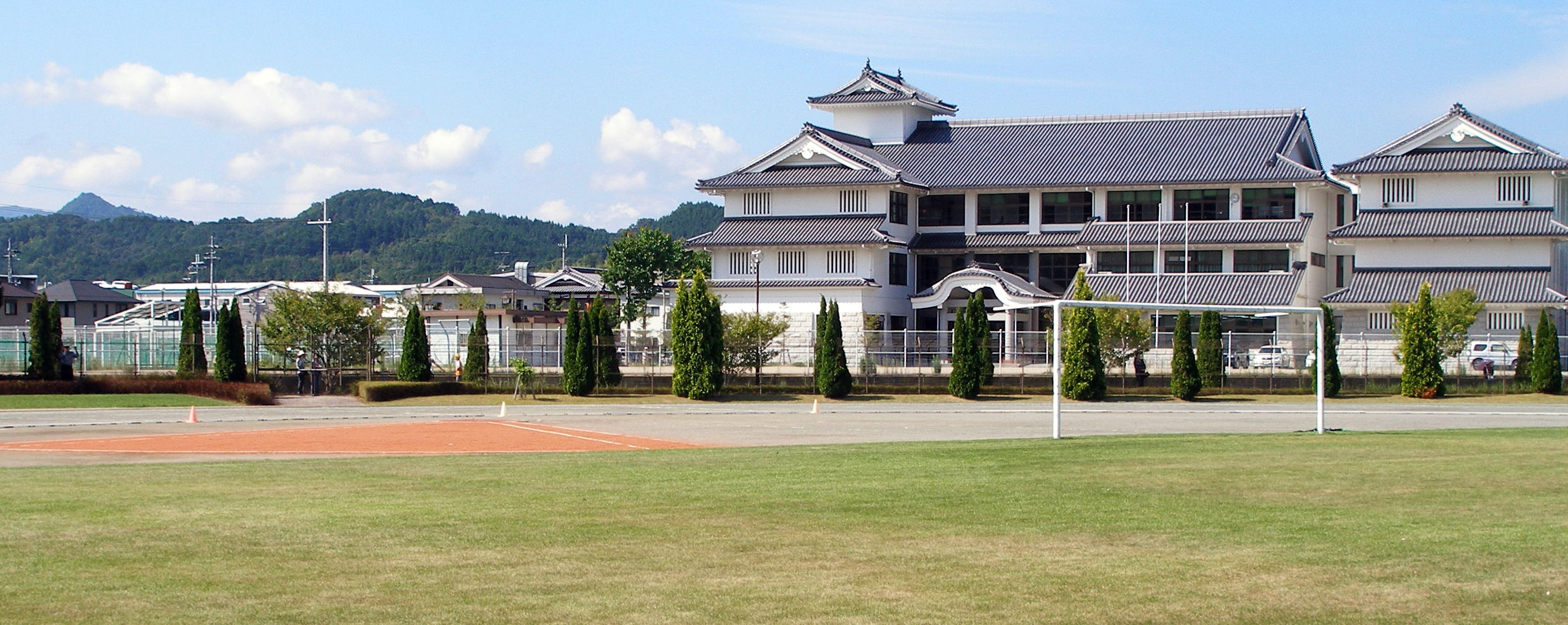 Sonobe Junior High School